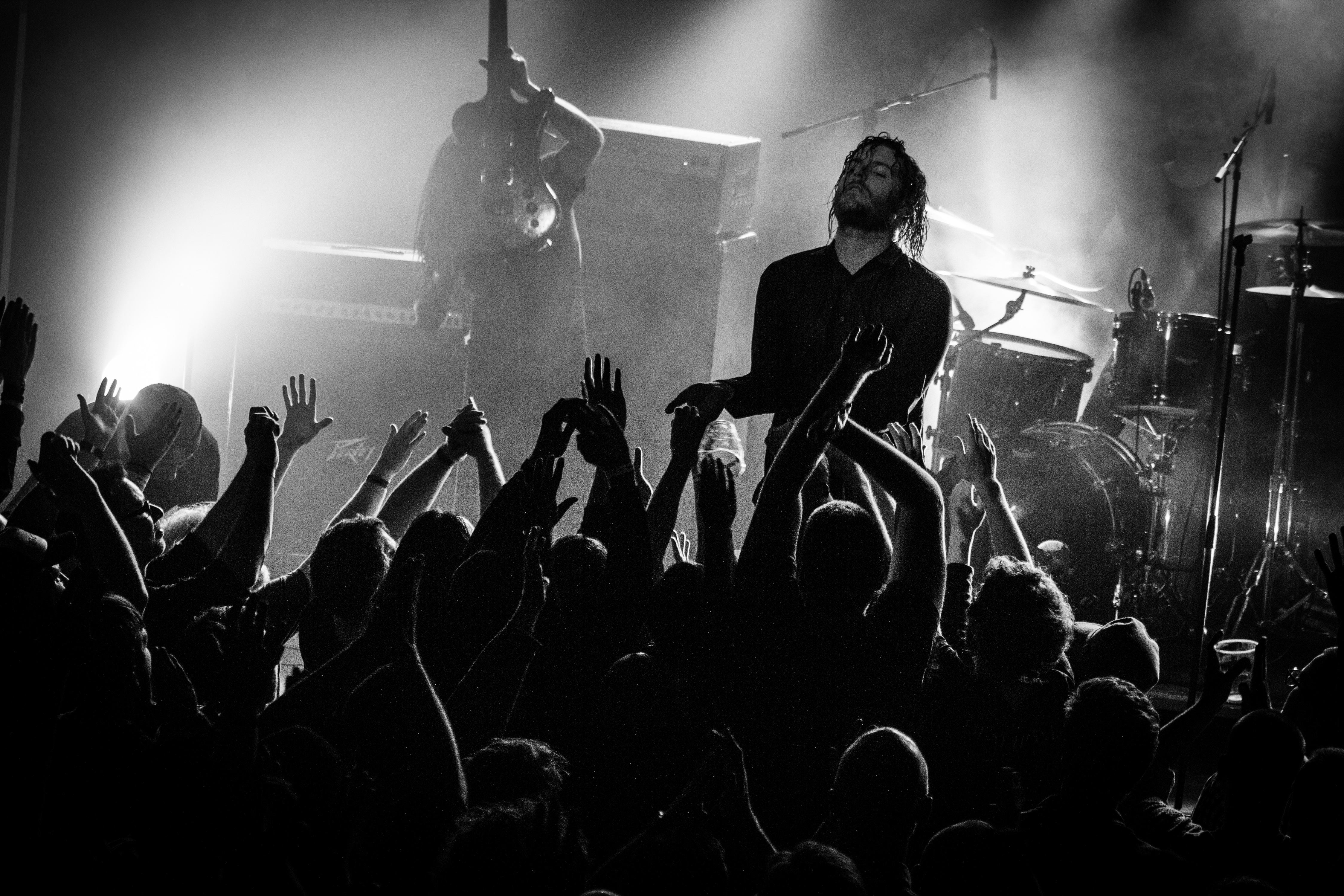 Deafheaven performing live at A Colossal Weekend 2017, Copenhagen, Denmark